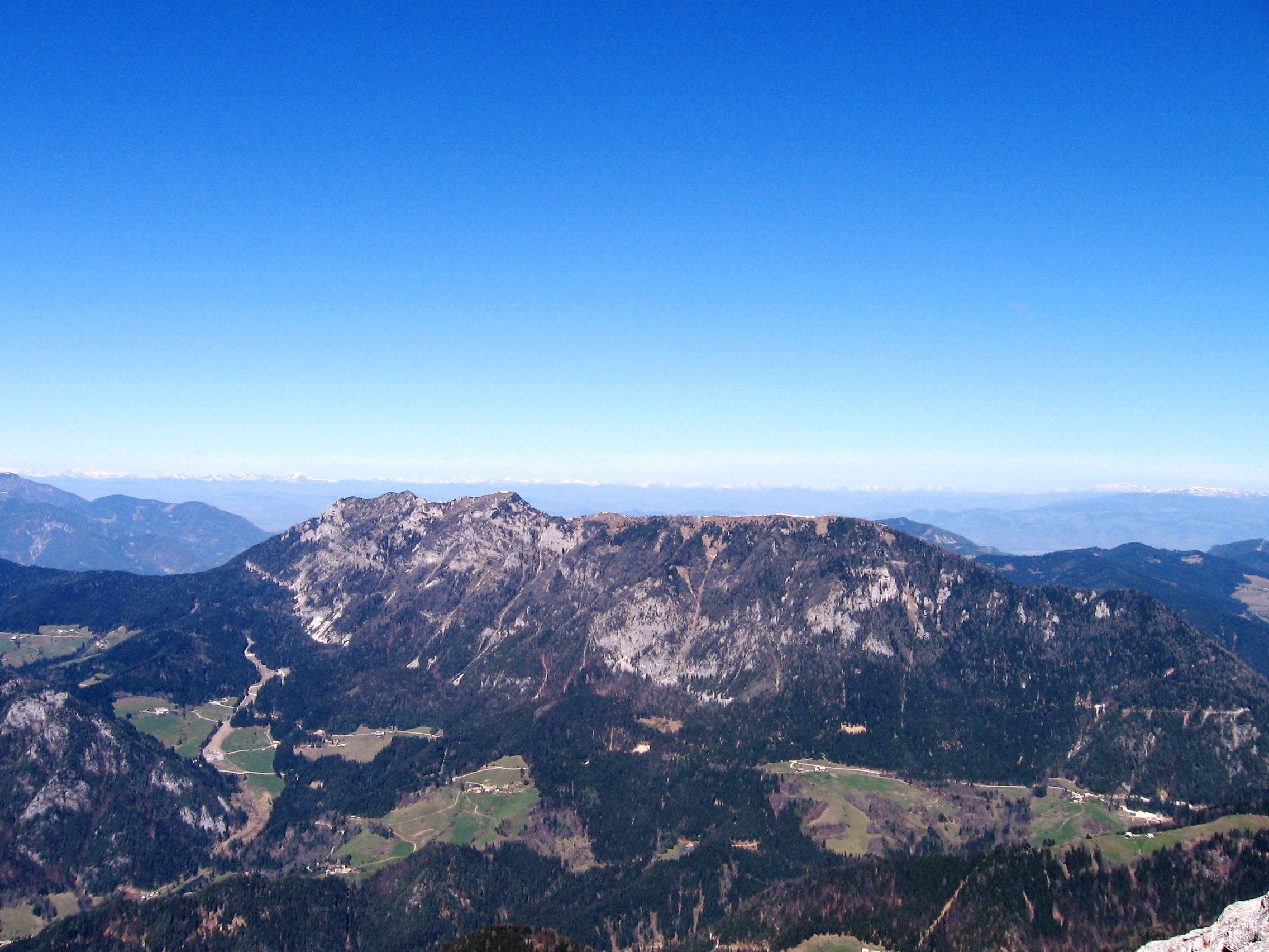 Mount Olševa (1,929 m) from western crest of Raduha, Slovenia